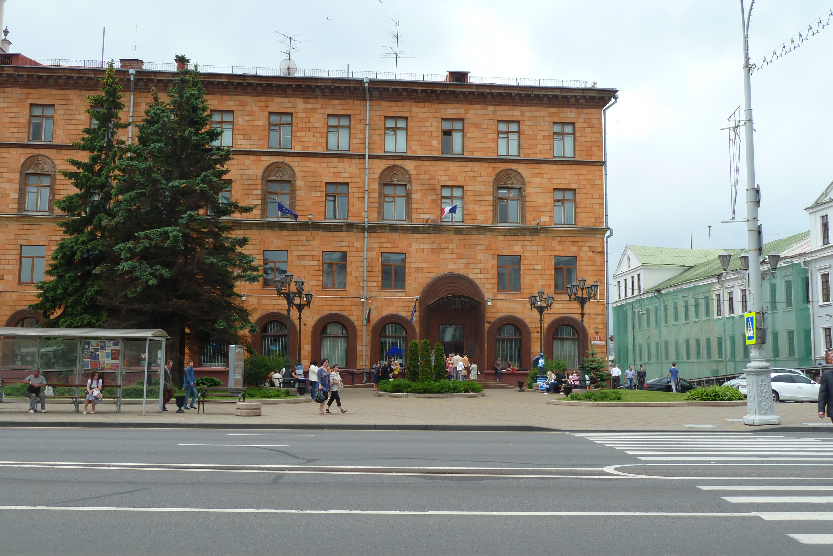 Embassy of France and Bulgaria in Minsk, Belarus